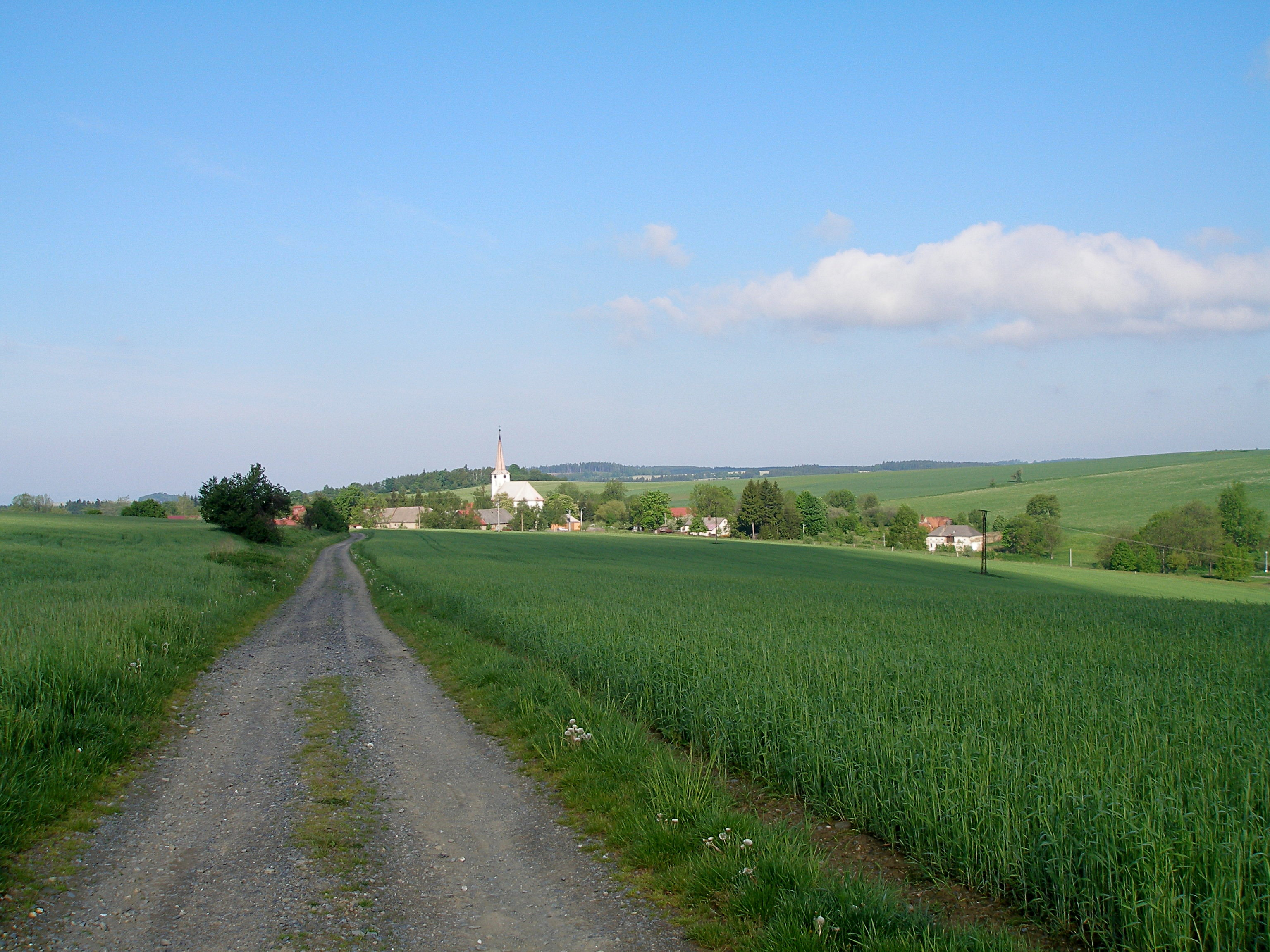 South-Eastern View of Hraničné Petrovice